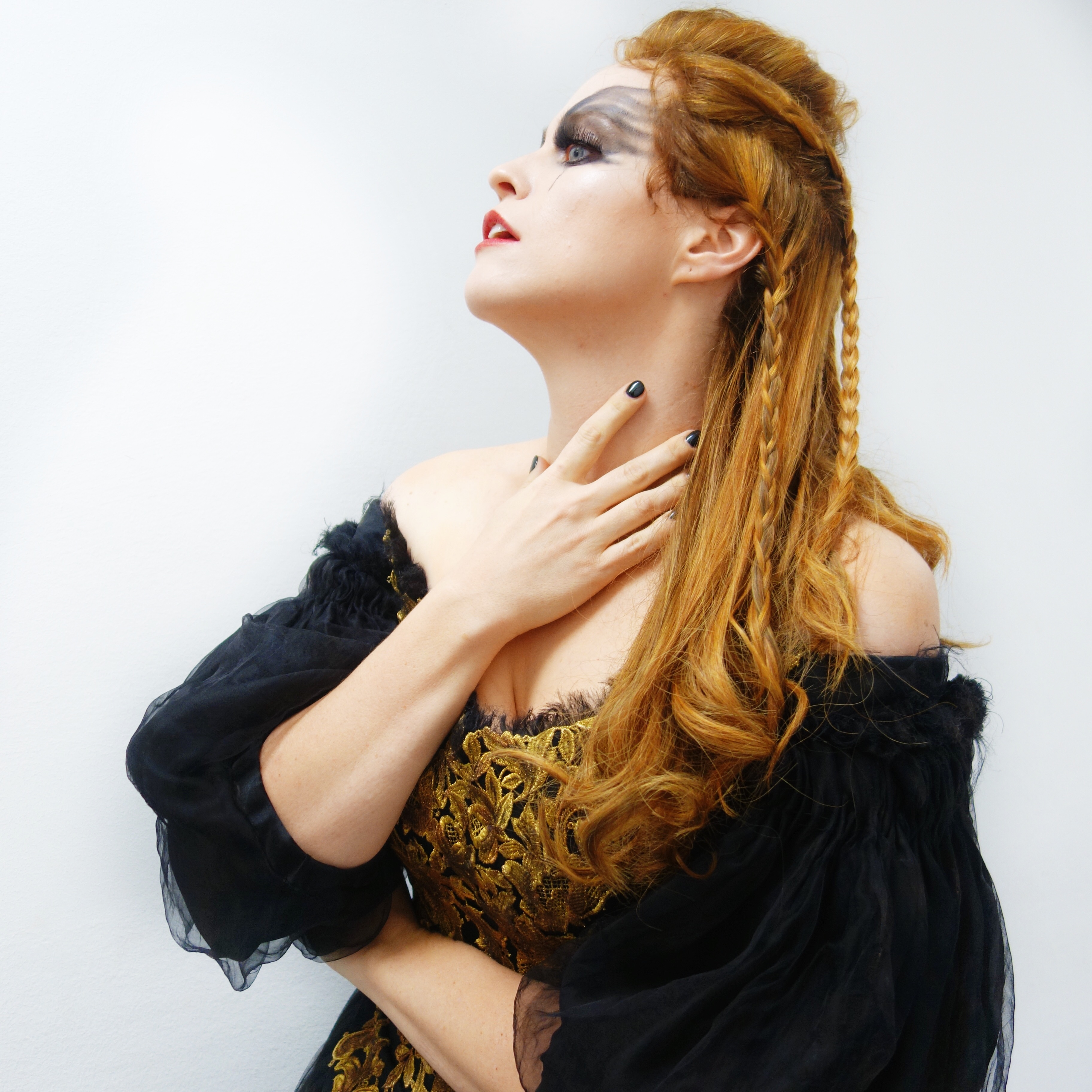 Rachel Willis-Sørensen as Hélène in Les vêpres siciliennes at the Bayerische Staatsoper (2018)